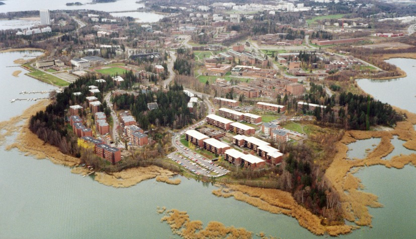 Otaniemi, Espoo, Finland, photographed from a hot air balloon